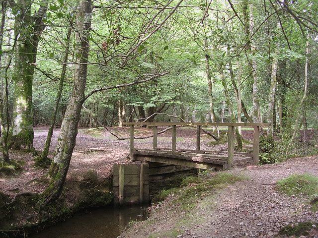 Footbridge over Bartley Water, west of Busketts Lawn Inclosure, New Forest. Bartley Water meanders its way through this shallow valley, and just to the east of this footbridge it enters the Busketts Lawn Inclosure.